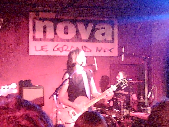 an artist performing during a Nuits Zebrées concert